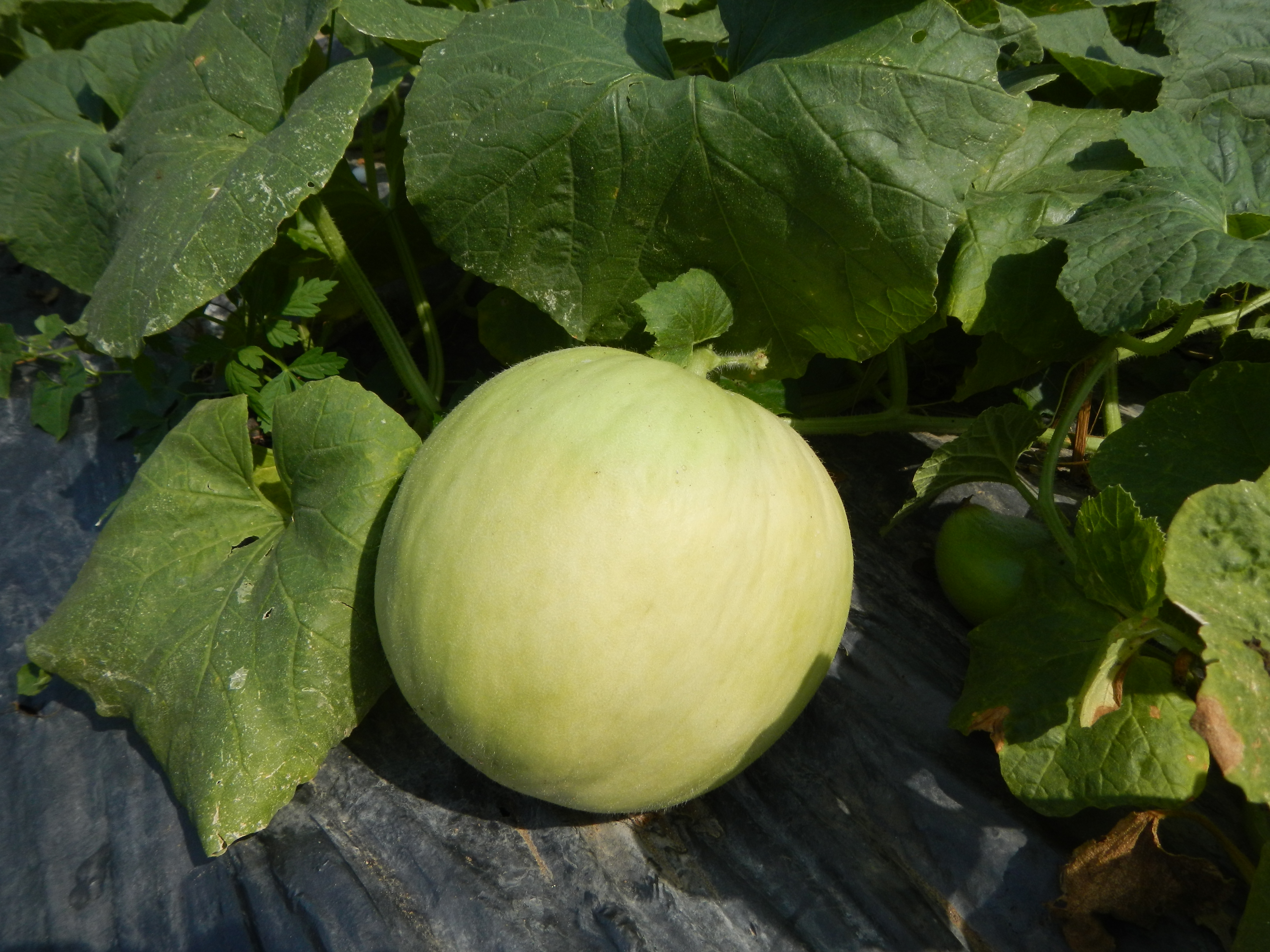 Barangay Mapaniqui, Candaba, Pampanga Welcome Arch in Barangay Anyatam San Ildefonso, Bulacan - Domesticated ducks in the Philippines farming in Paddy fields of Bulacan and farming of Cattle, Carabaos, including Honeydew (cultivar group of the muskmelon, Cucumis melo Inodorus group, which includes crenshaw, casaba, Persian, winter, and other mixed melons).